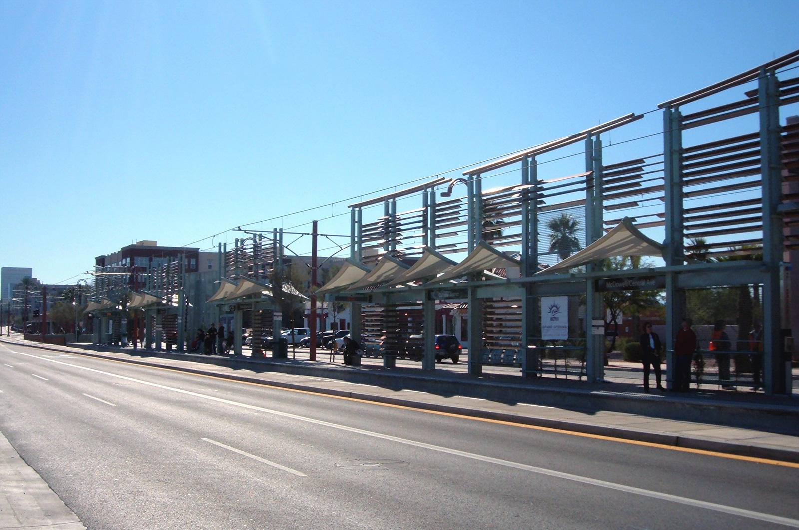 Photograph of the Cultural District (or Central at McDowell) Station of METRO Light Rail that serves the Phoenix area, Arizona, USA. This photograph was taken during the light rail's grand opening celebration on December 28, 2008.